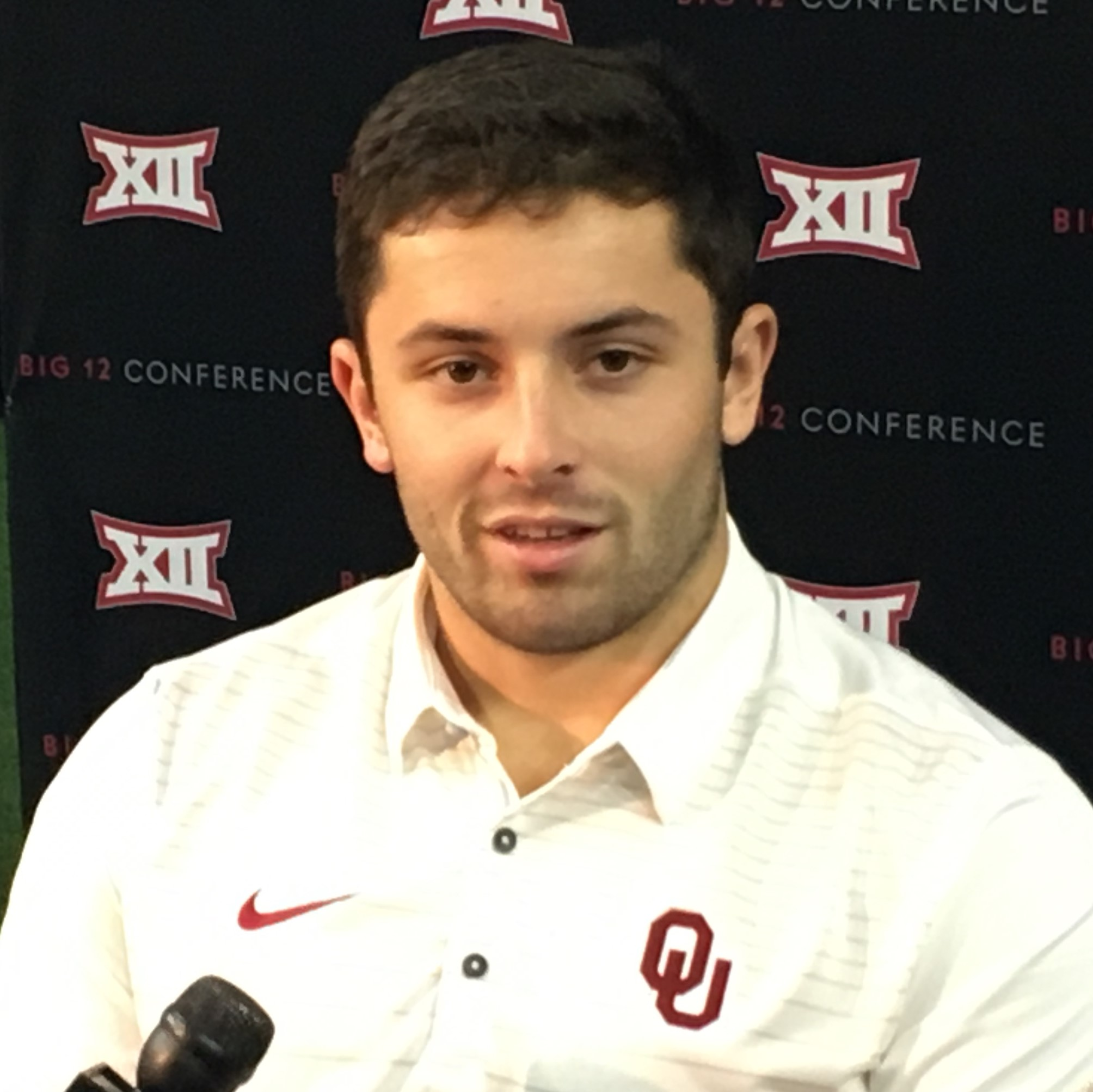 Baker Mayfield, quarterback of the Oklahoma Sooners football team, at the 2017 Big 12 Conference Media Days in Frisco, Texas.